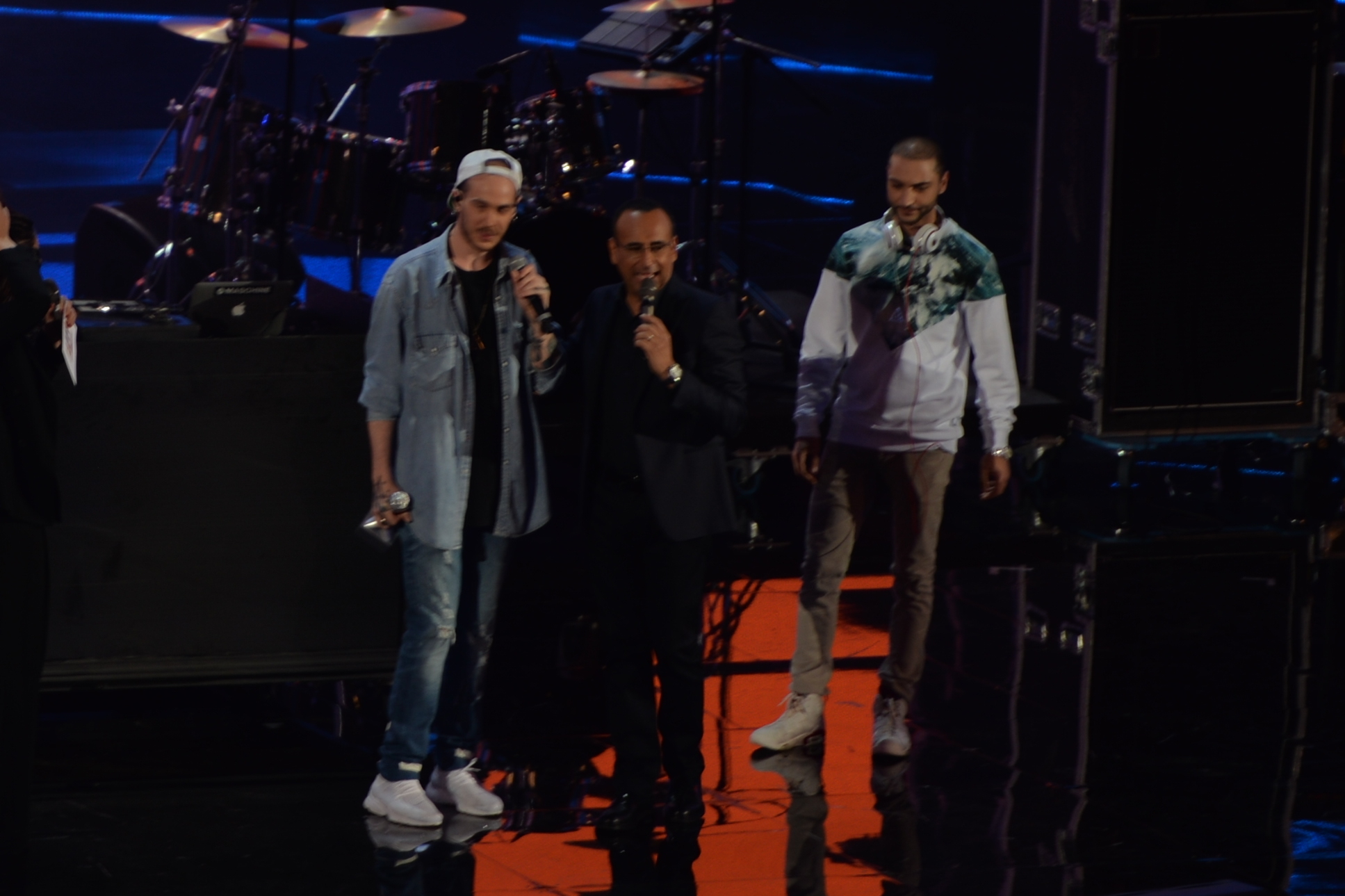 Gemitaiz during the Wind Music Awards 2016 ceremony at Verona Arena